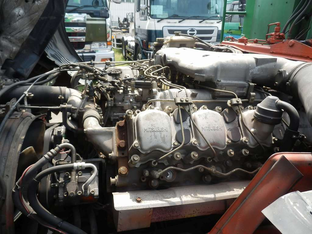 17.737cc 355hp